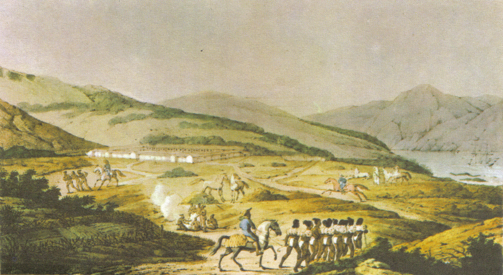 The Hispanic colonial era Presidio of San Francisco and the Golden Gate. Drawing by Louis Choris - Rurik-Expedition, in November 1817.